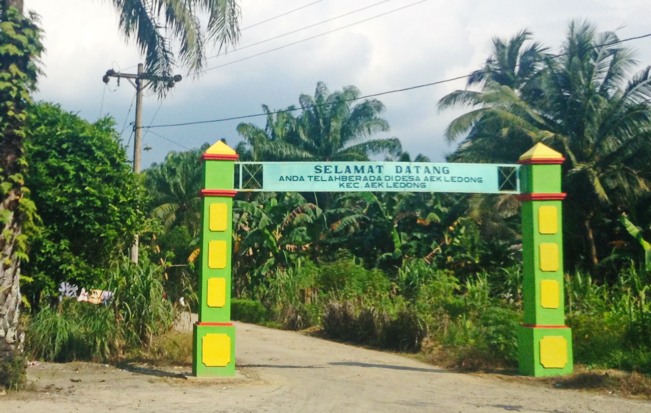 Welcome Gate to Aek Ledong, Aek Ledong, Asahan